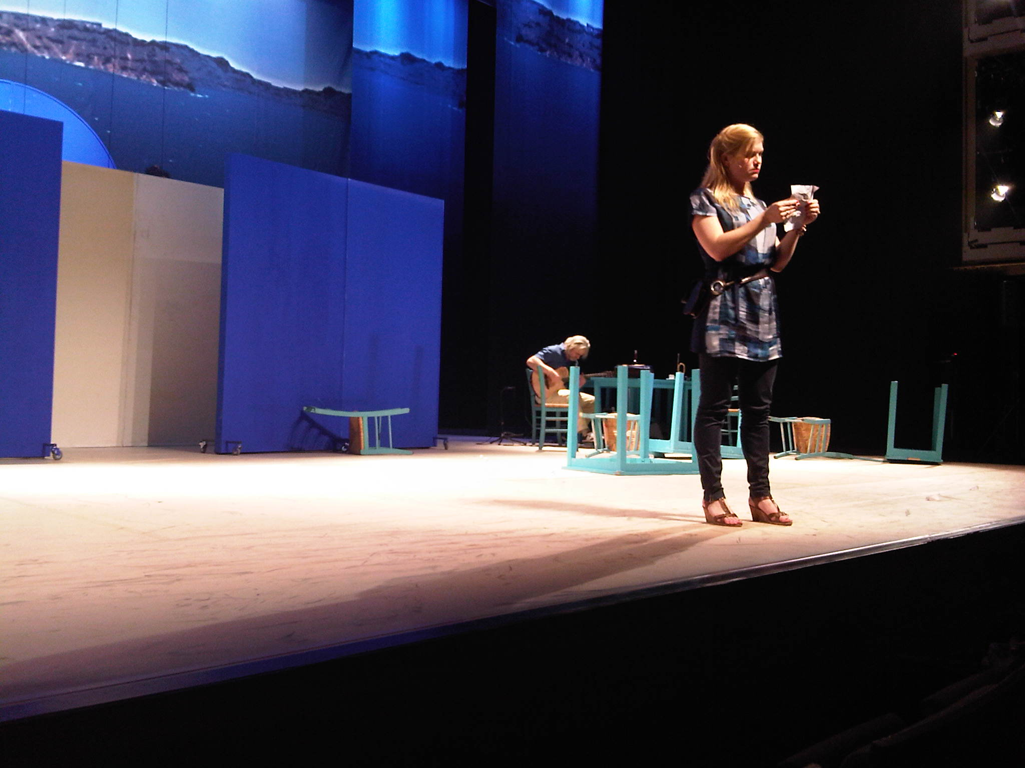 The Steward (played by Lore Dijkman) reads Timon's farewell note after the latter has renounced society. Scene from Shakespeare's play Timon of Athens.